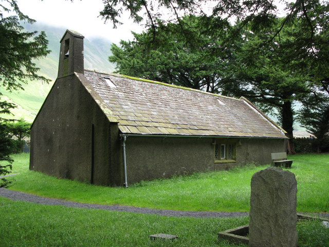 St Olaf's Church, Wasdale Head, Cumbria, England - Lake District, smallest church in England